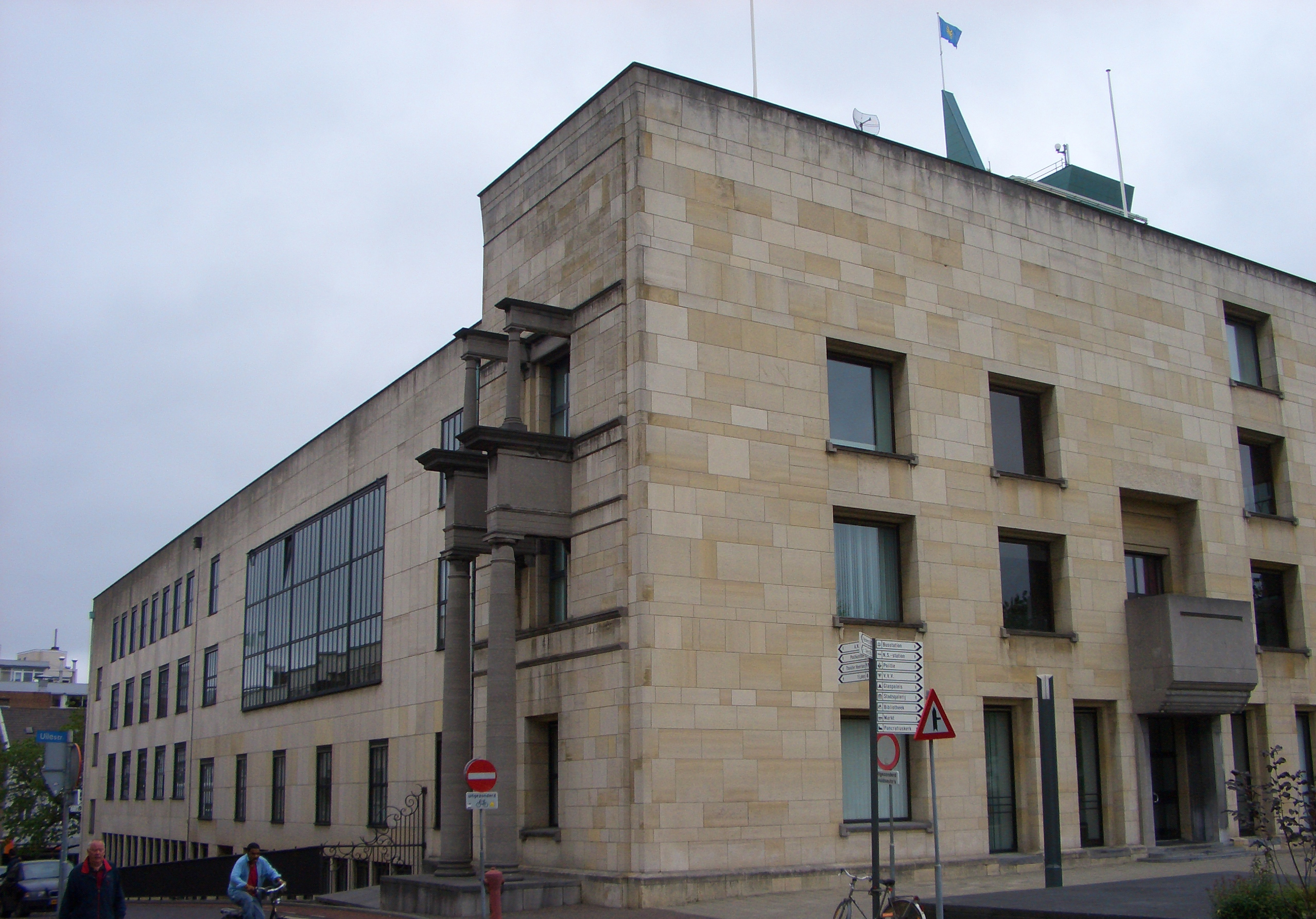 Tow hall of Heerlen (1936-38), by Fritz Peutz